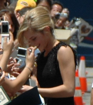 Actress Emma Watson